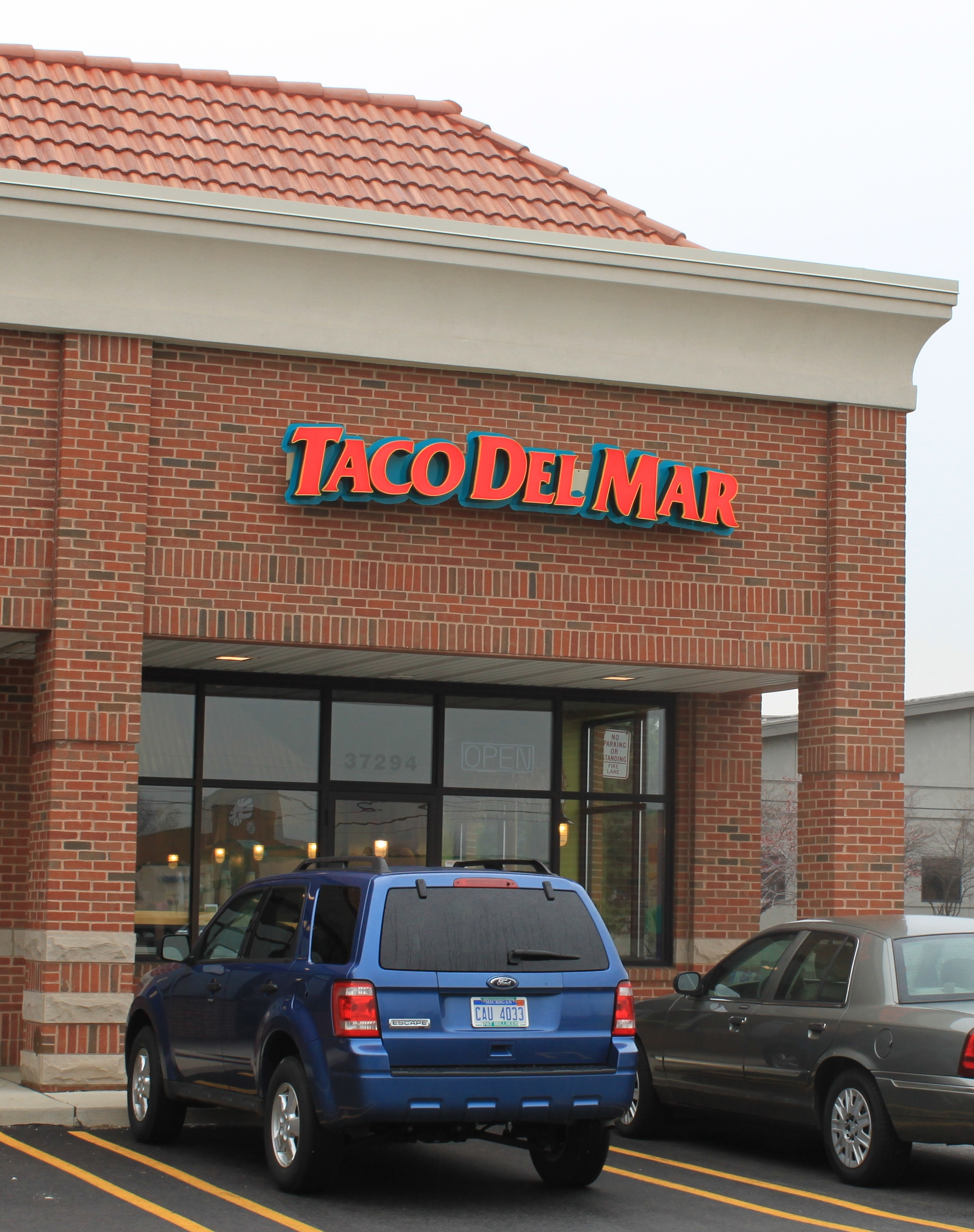 Taco Del Mar restaurant, 37294 Six Mile Road, Livonia, Michigan